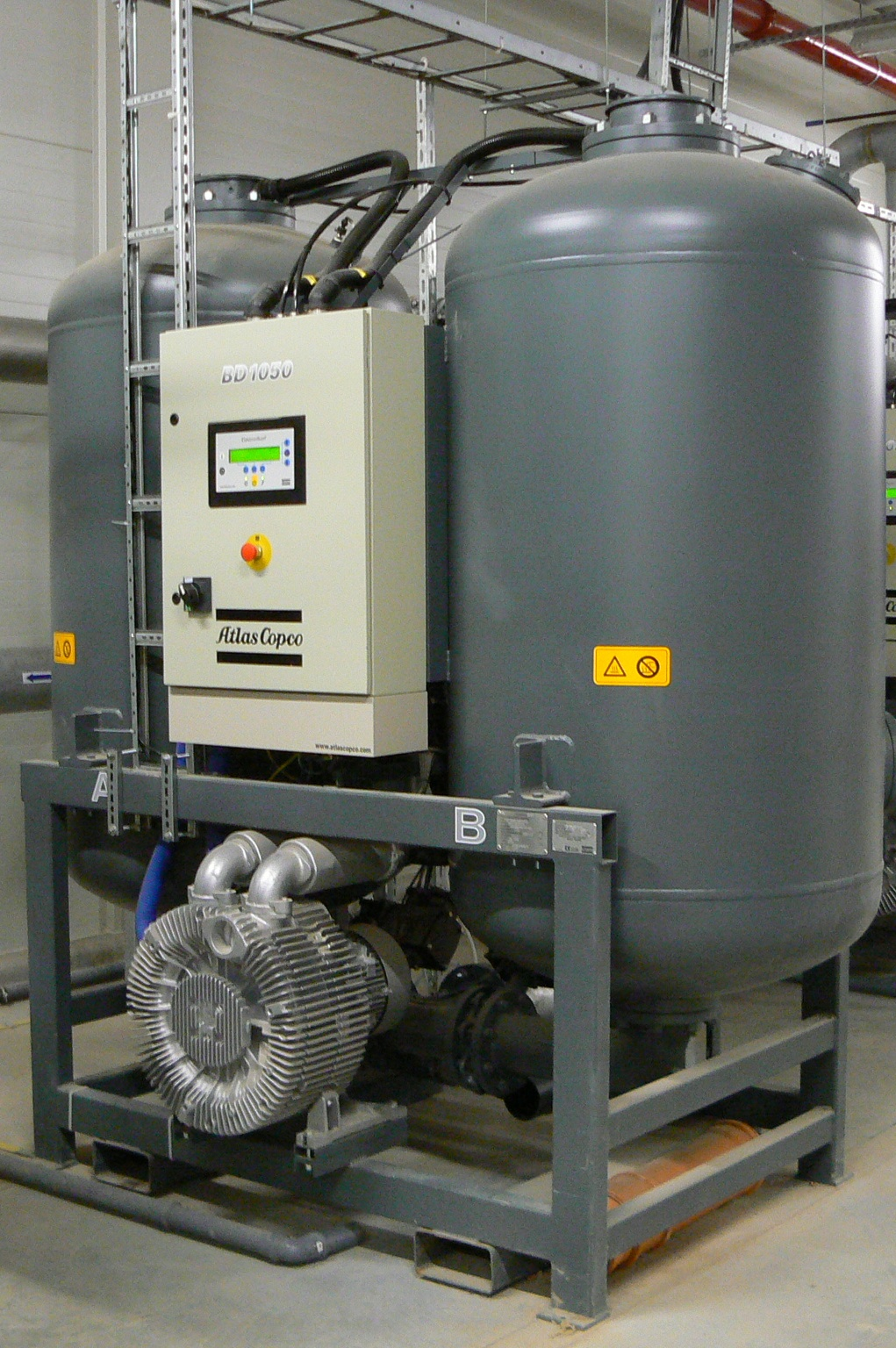 Heat regenerated compressed air dryer